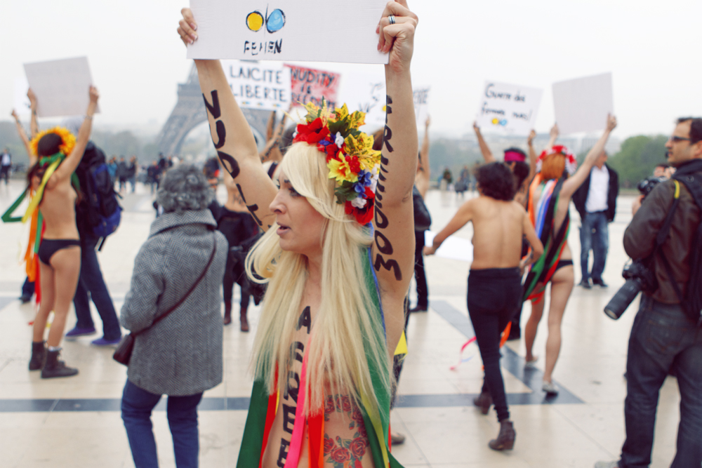 Femen protest in support to Aliaa Magda Elmahdy